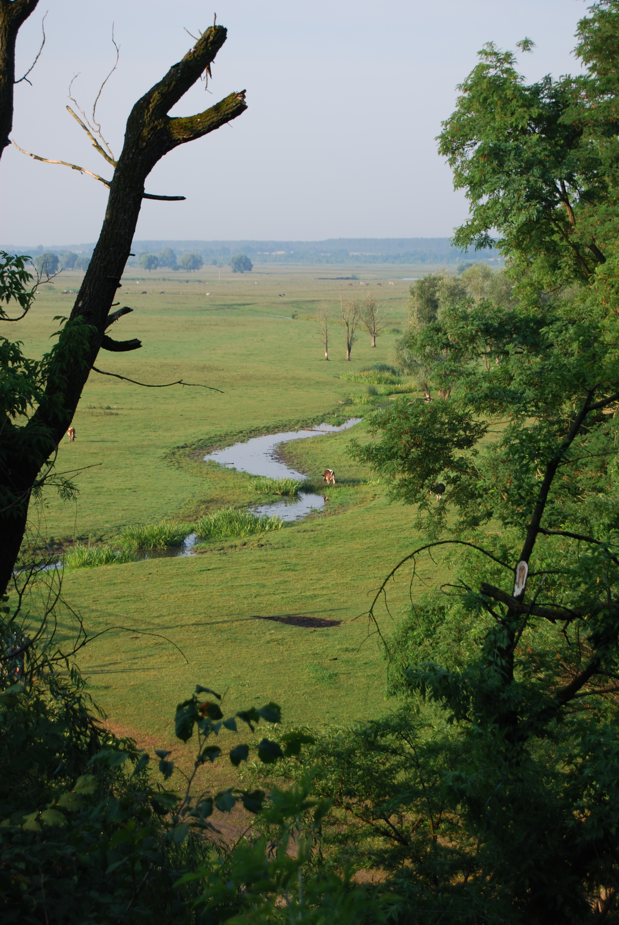 Area of Stepań. Tributary of Horyń river